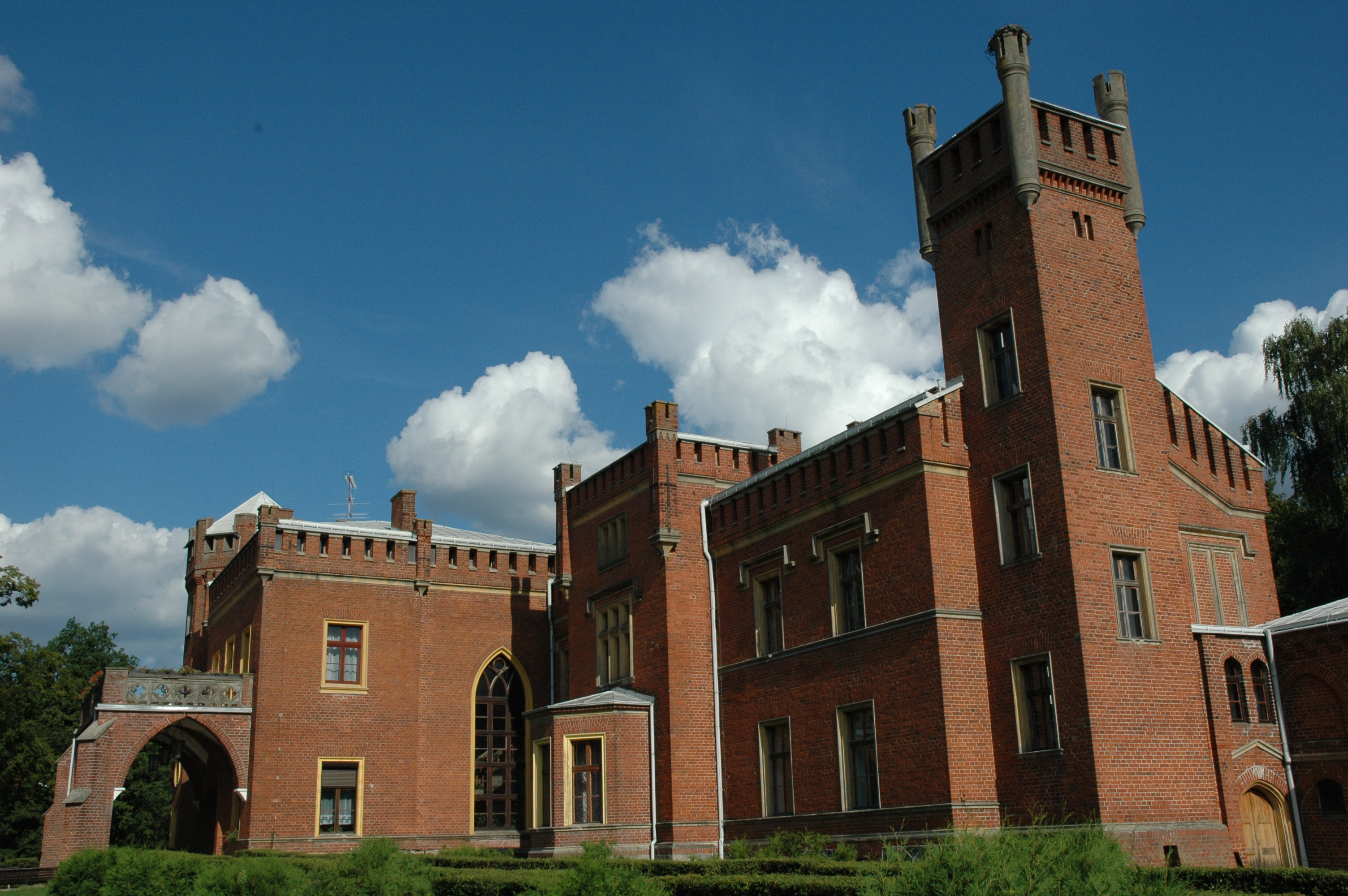 Karnity, village in Poland - palace.